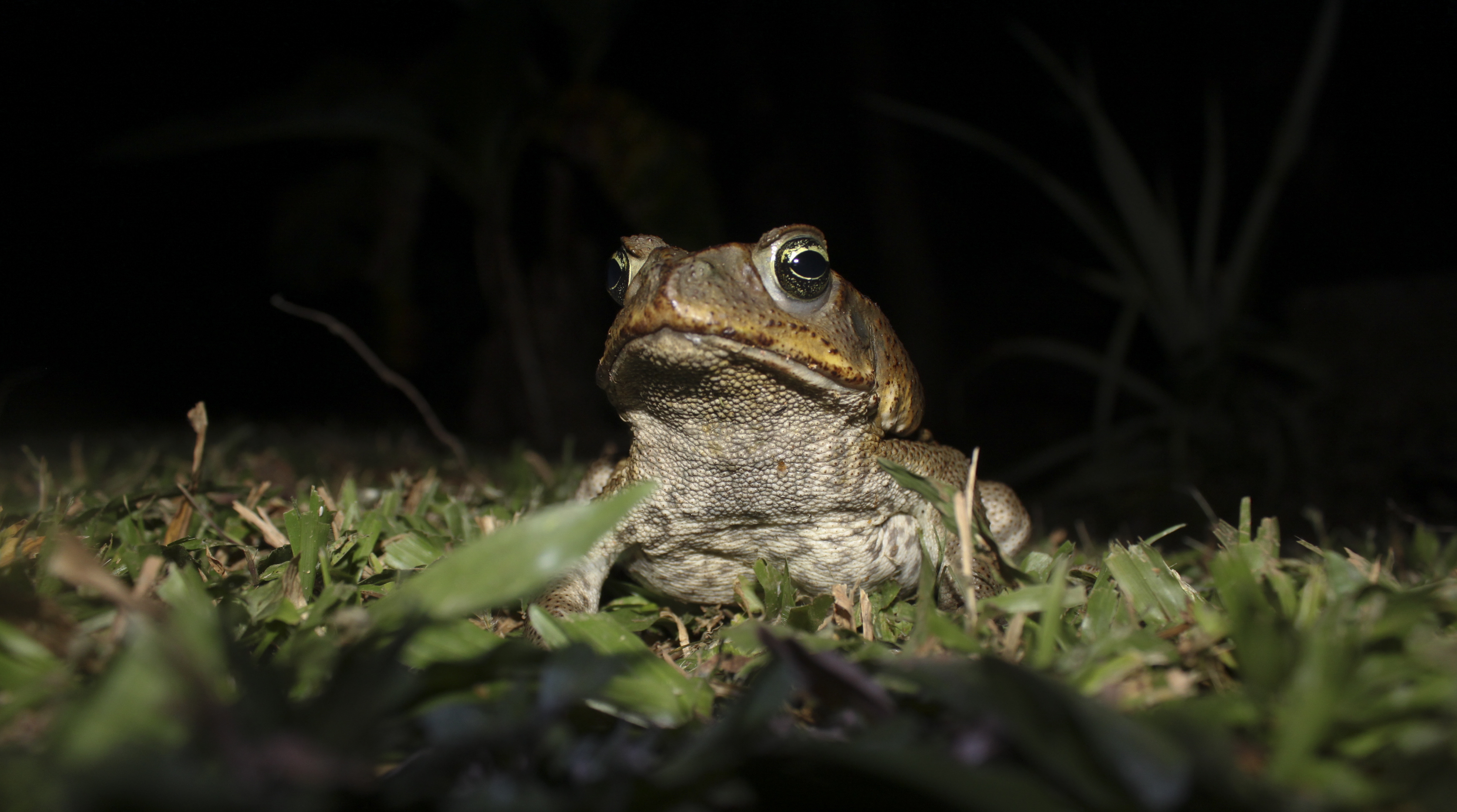 Cane toad